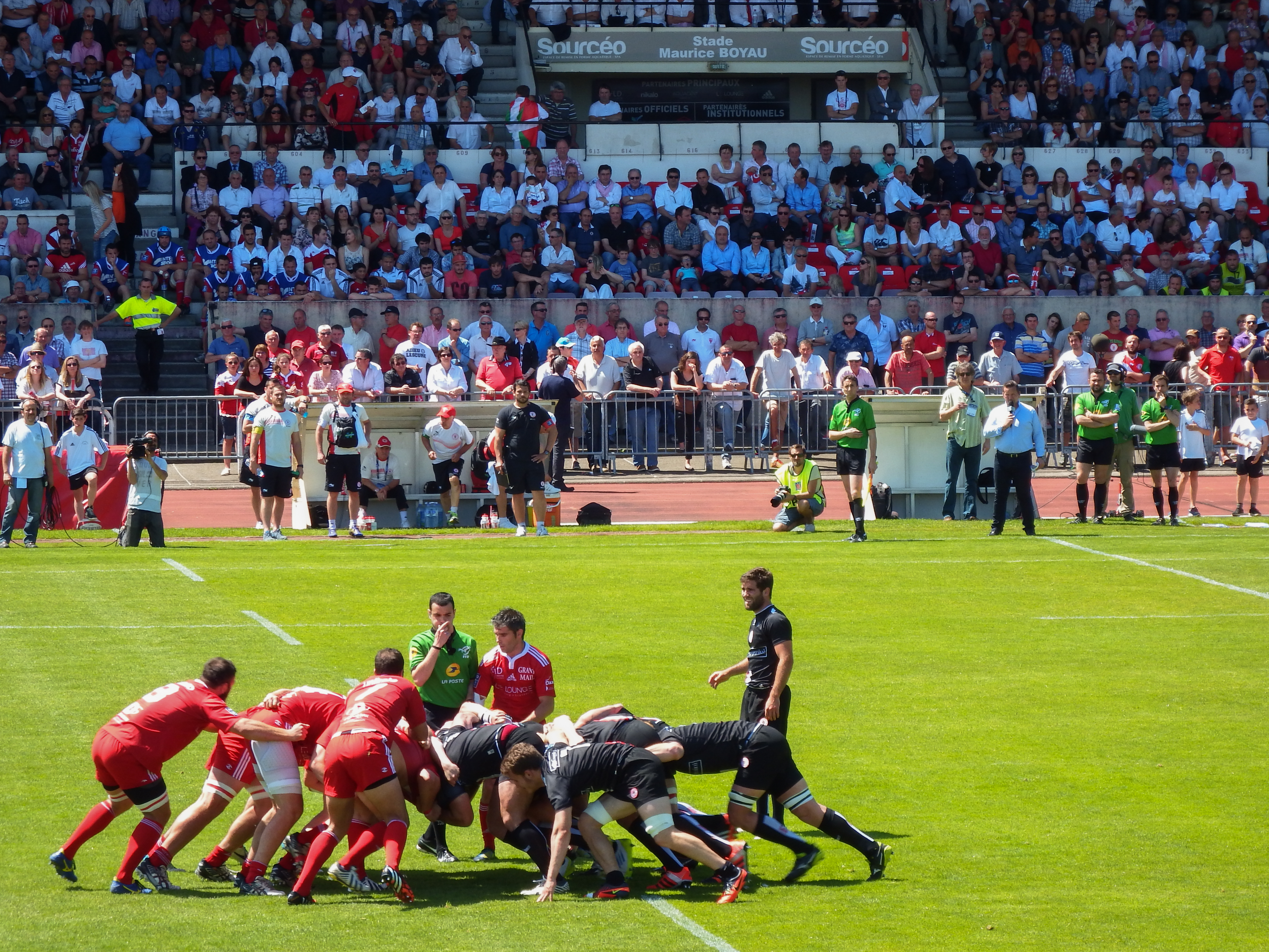 Pro D2 2014-2015 — 10 May 2015, stade Maurice-Boyau. Match between: US Dax — Biarritz Olympique